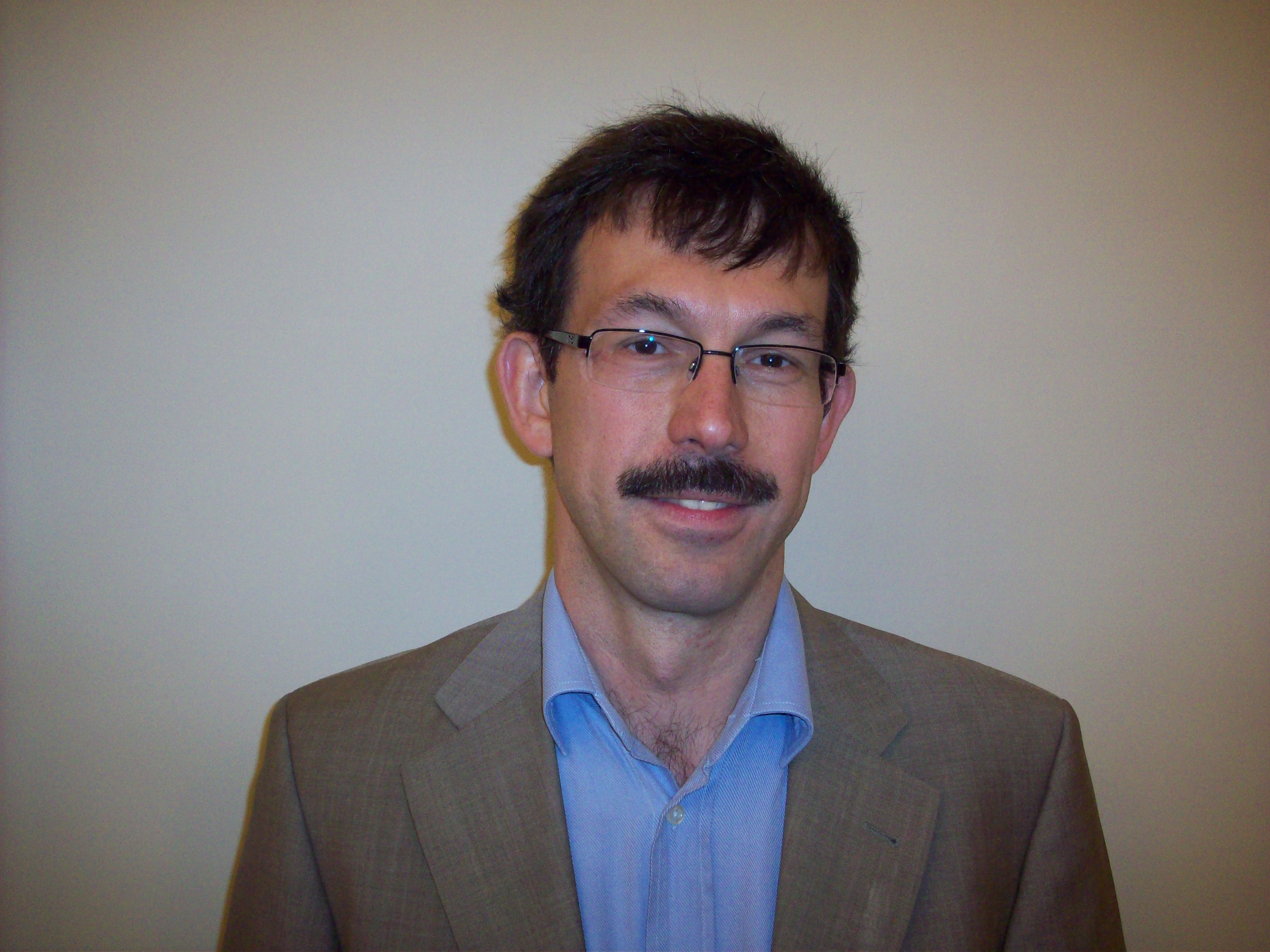 Famous hungarian esperantist, now living in Luxembourg